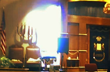 Sanctuary at Beth Sholom in Frederick, Maryland